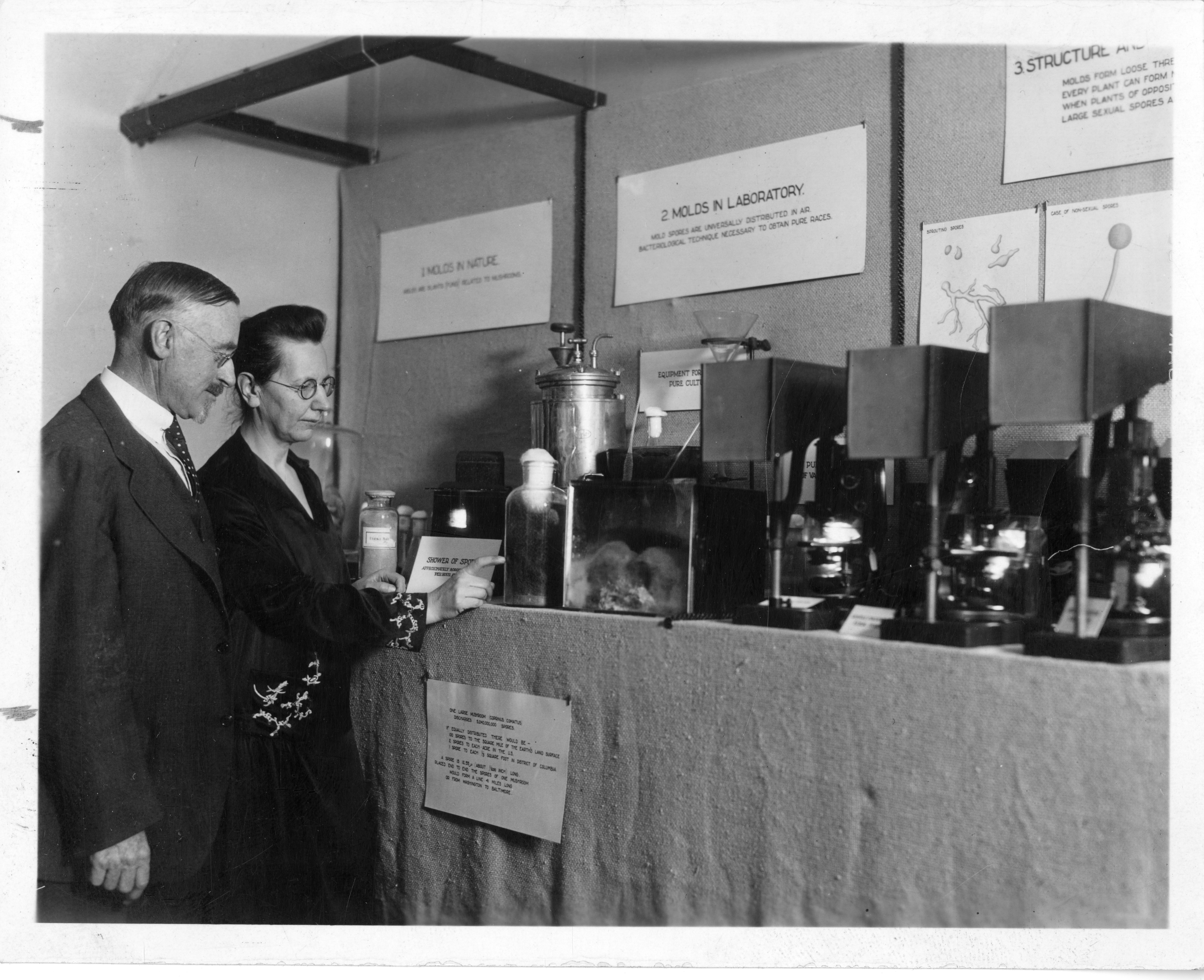 Description: Cytologist Sophia A. Satina (1879-1975), shown with geneticist Albert Francis Blakeslee, was born in Russia, where she taught at the Women's College of Moscow until 1921. Satina's research collaboration with Blakeslee began in 1937, focusing primarily on plant tumors. Creator/Photographer: Fremont Davis Medium: Black and white photographic print Persistent URL: Repository: Smithsonian Institution Archives Collection: Accession 90-105: Science Service Records, 1920s – 1970s - Science Service, now the Society for Science & the Public, was a news organization founded in 1921 to promote the dissemination of scientific and technical information. Although initially intended as a news service, Science Service produced an extensive array of news features, radio programs, motion pictures, phonograph records, and demonstration kits and it also engaged in various educational, translation, and research activities. Accession number: SIA2007-0265